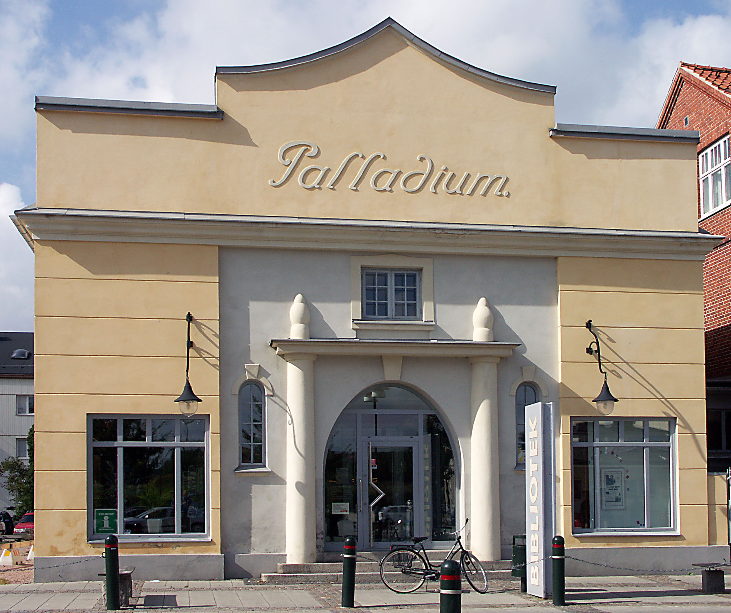 Public Library in Eslöv, Sweden.